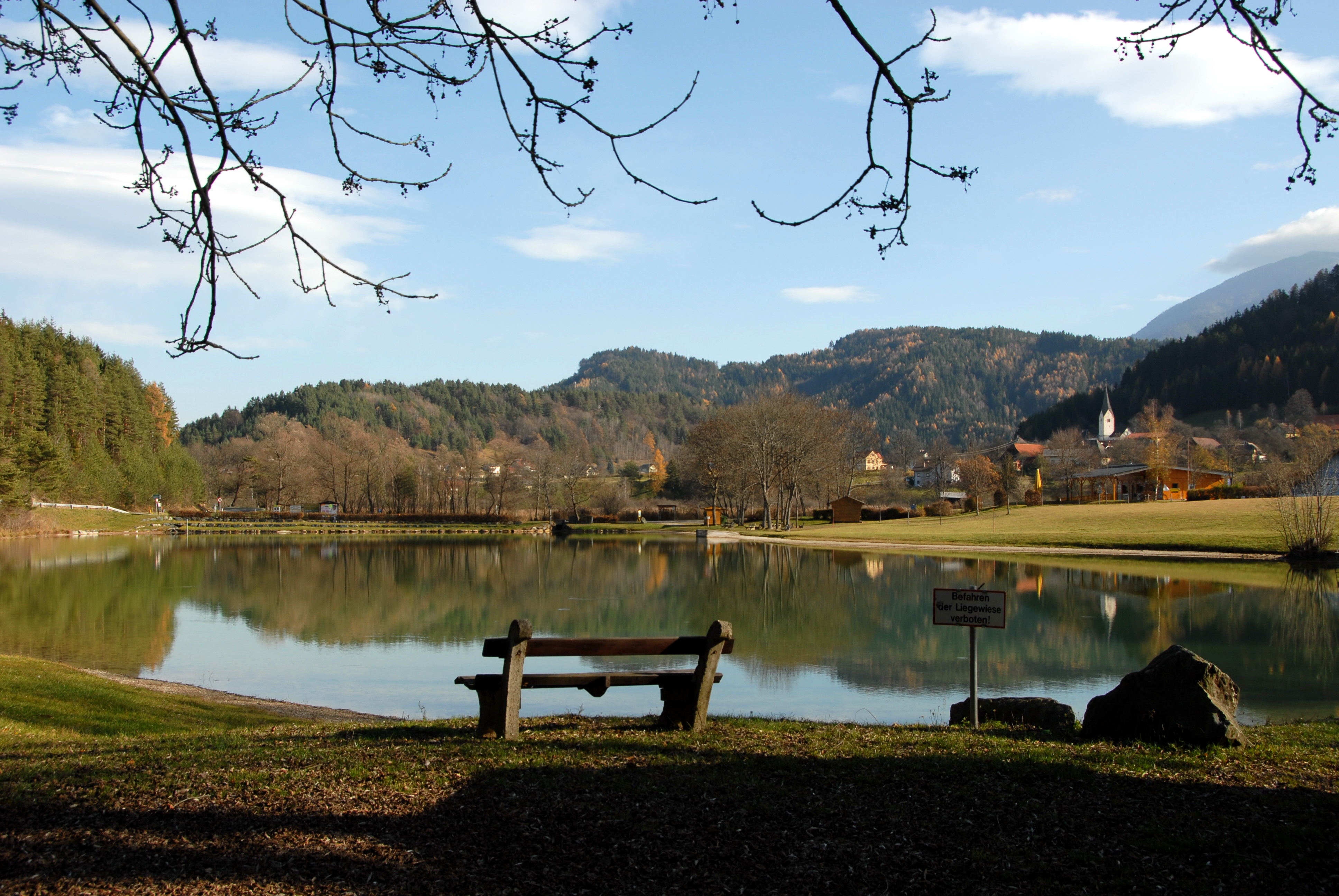 Lake Sonnegg in Sonnegg, municipality Sittersdorf, district Völkermarkt, Carinthia, Austria, EU